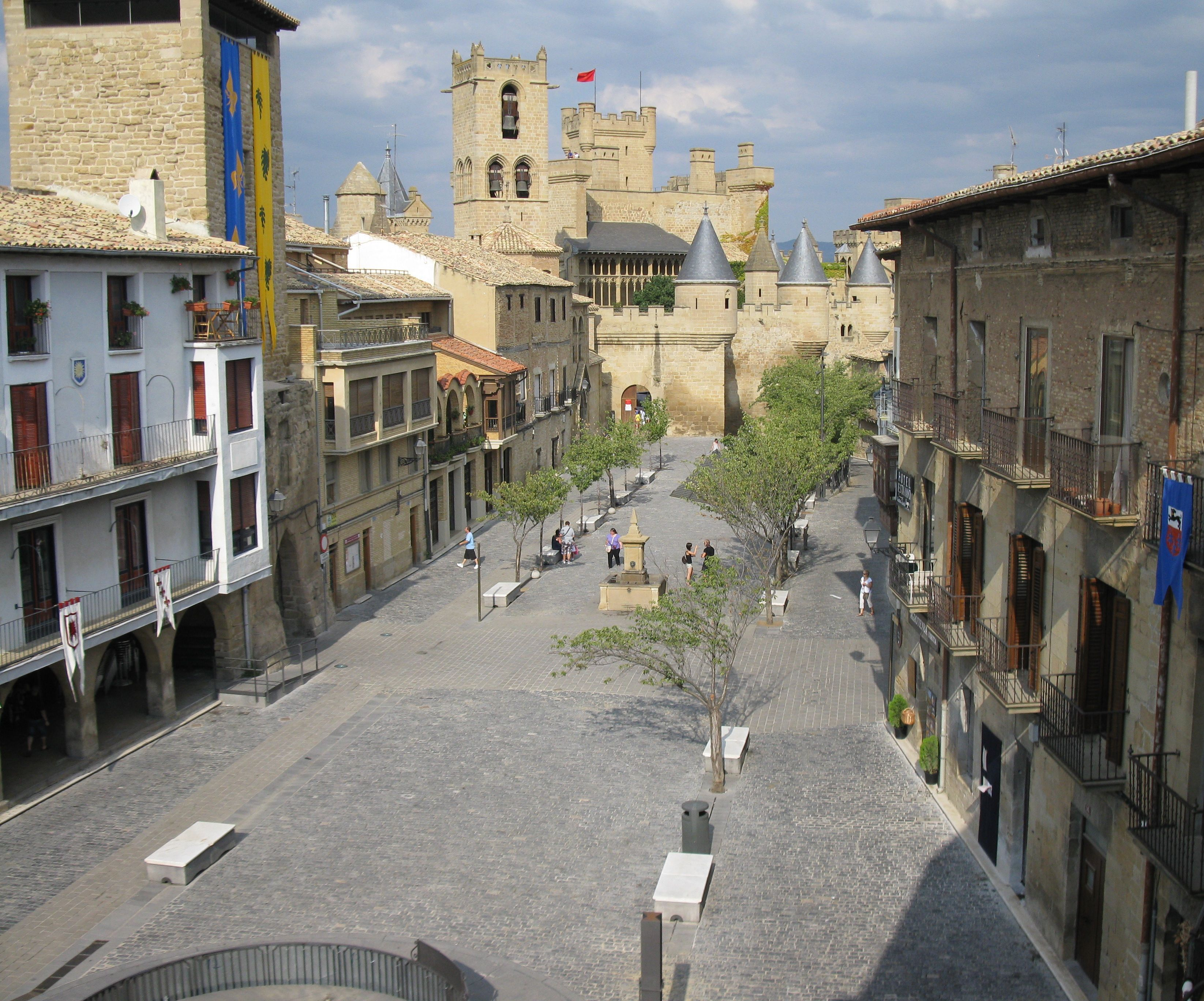 Castle, palace and centre of the town of Olite, Navarra